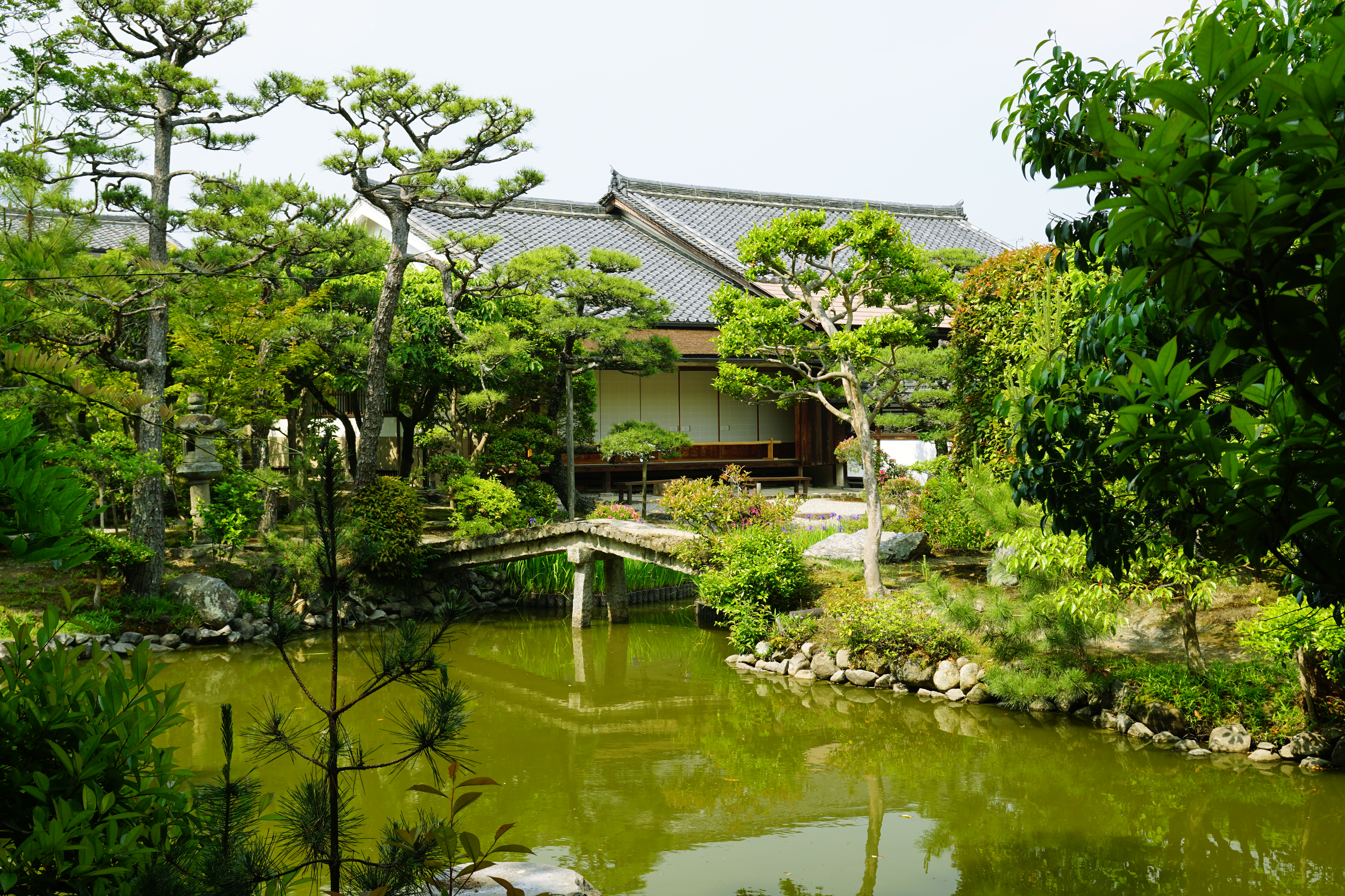 Hokke-ji in Nara, Nara prefecture, Japan.